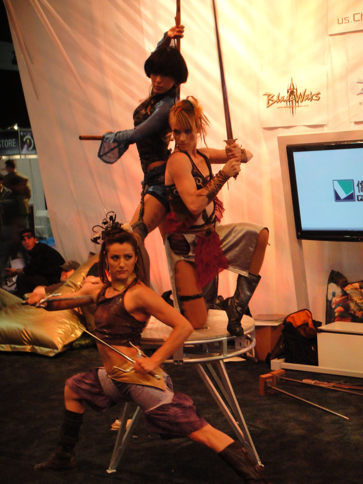 Taken on June 17, 2010 Dowtown Carrier Annex, Los Angeles, CA, US Sony DSC-T900